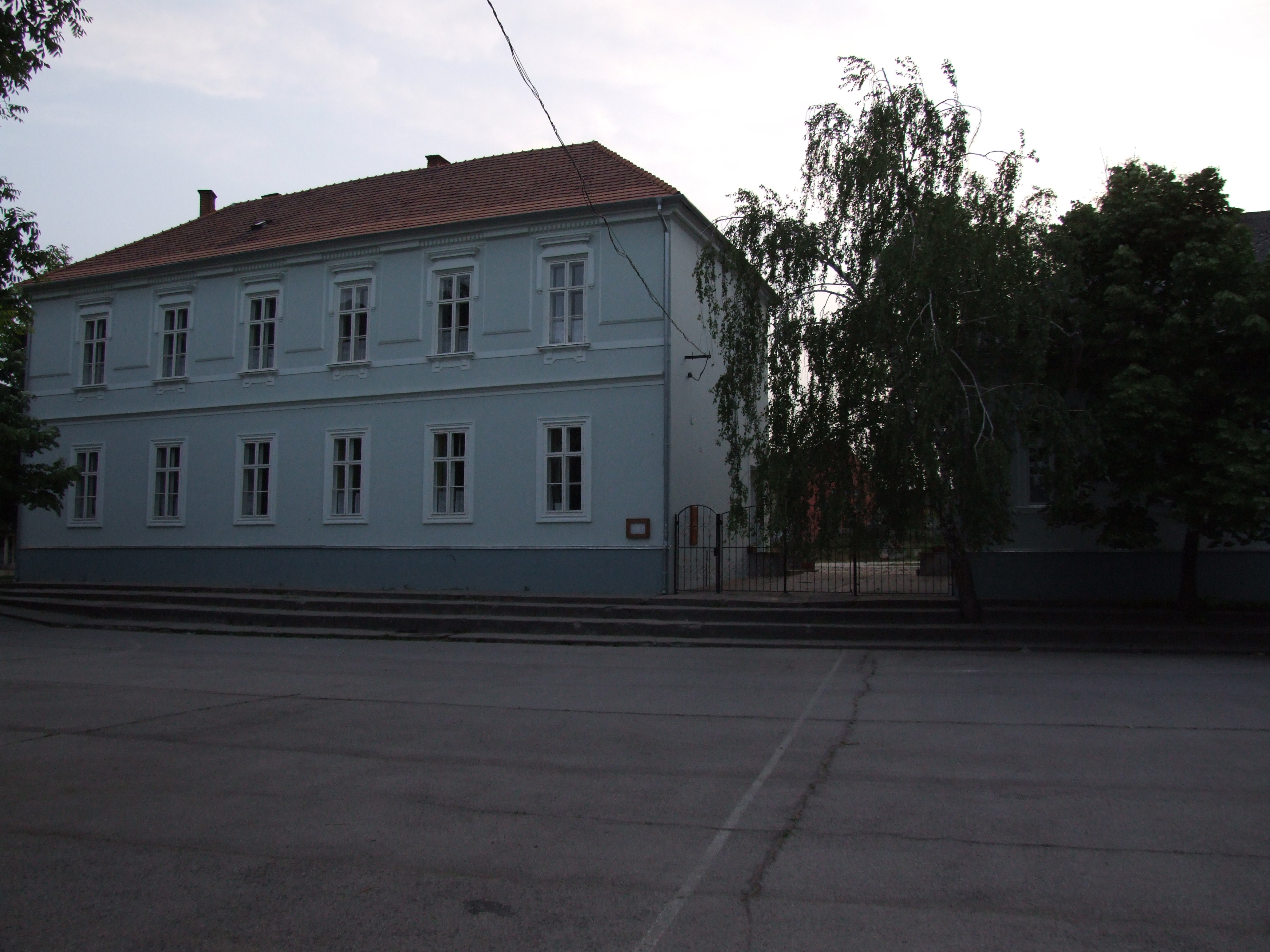 Balogh Antal Catholic School and Gymnasium, Paks, Hungary